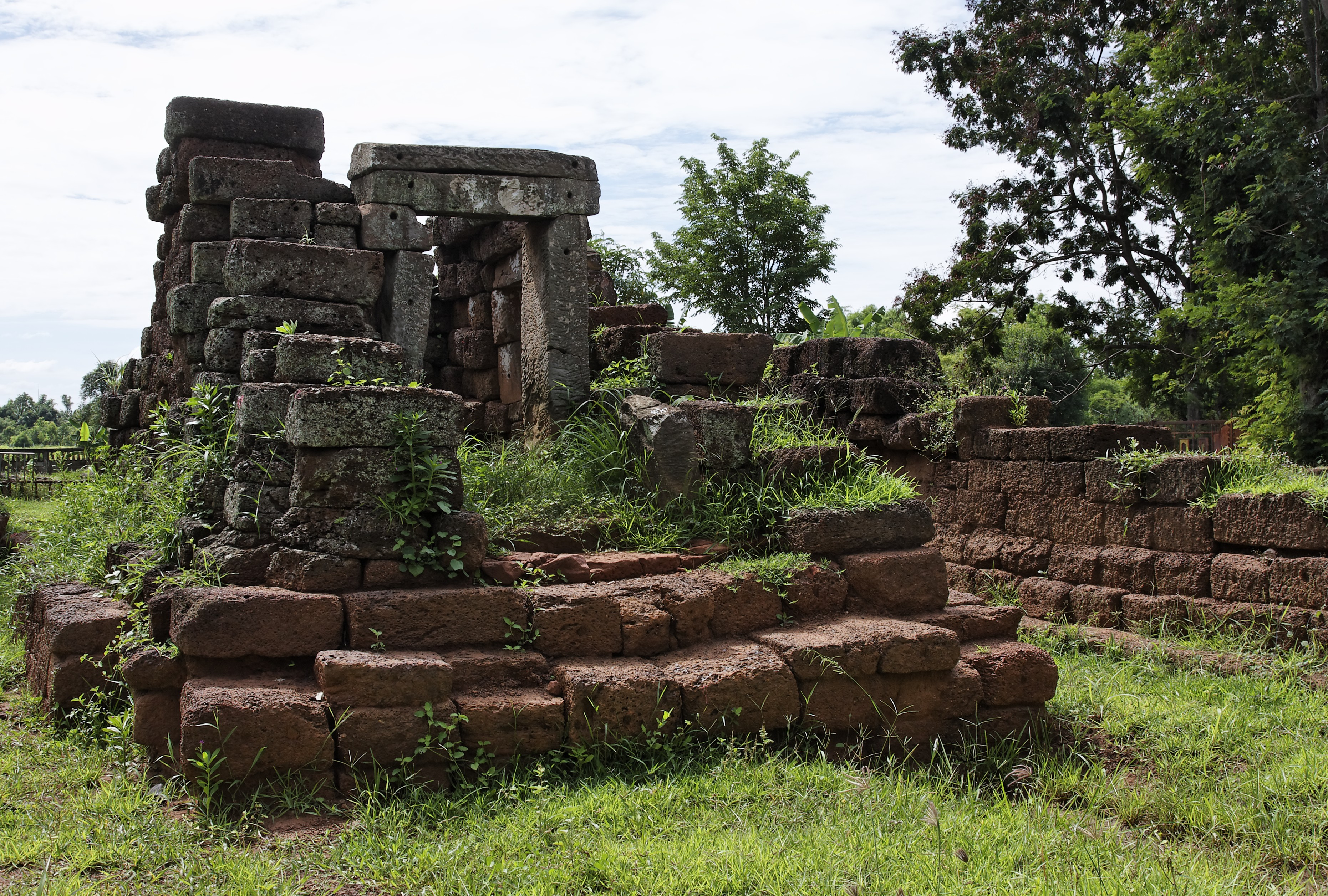 Prasat Khorn Buri, Thailand